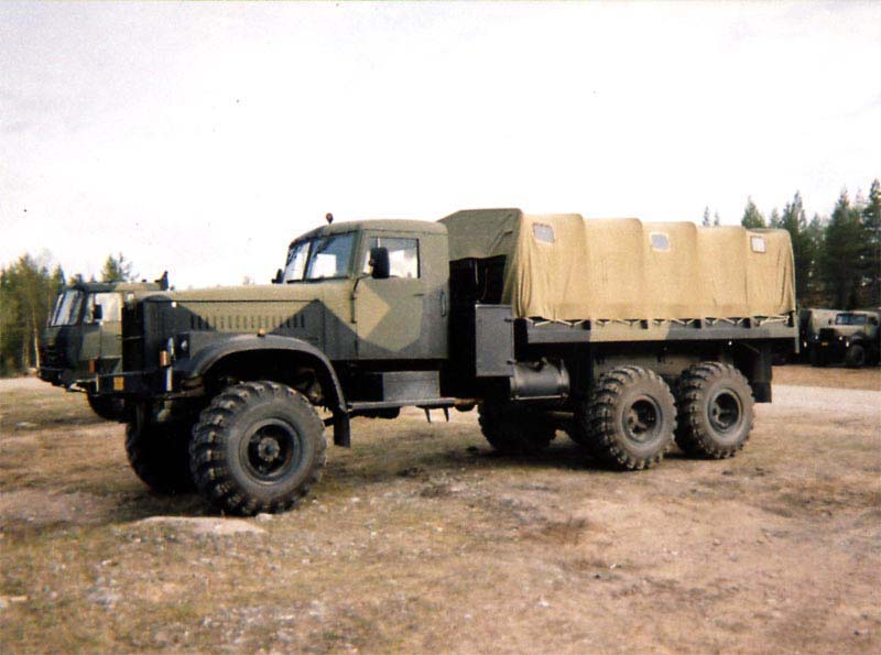 KrAZ-255B of Finnish army